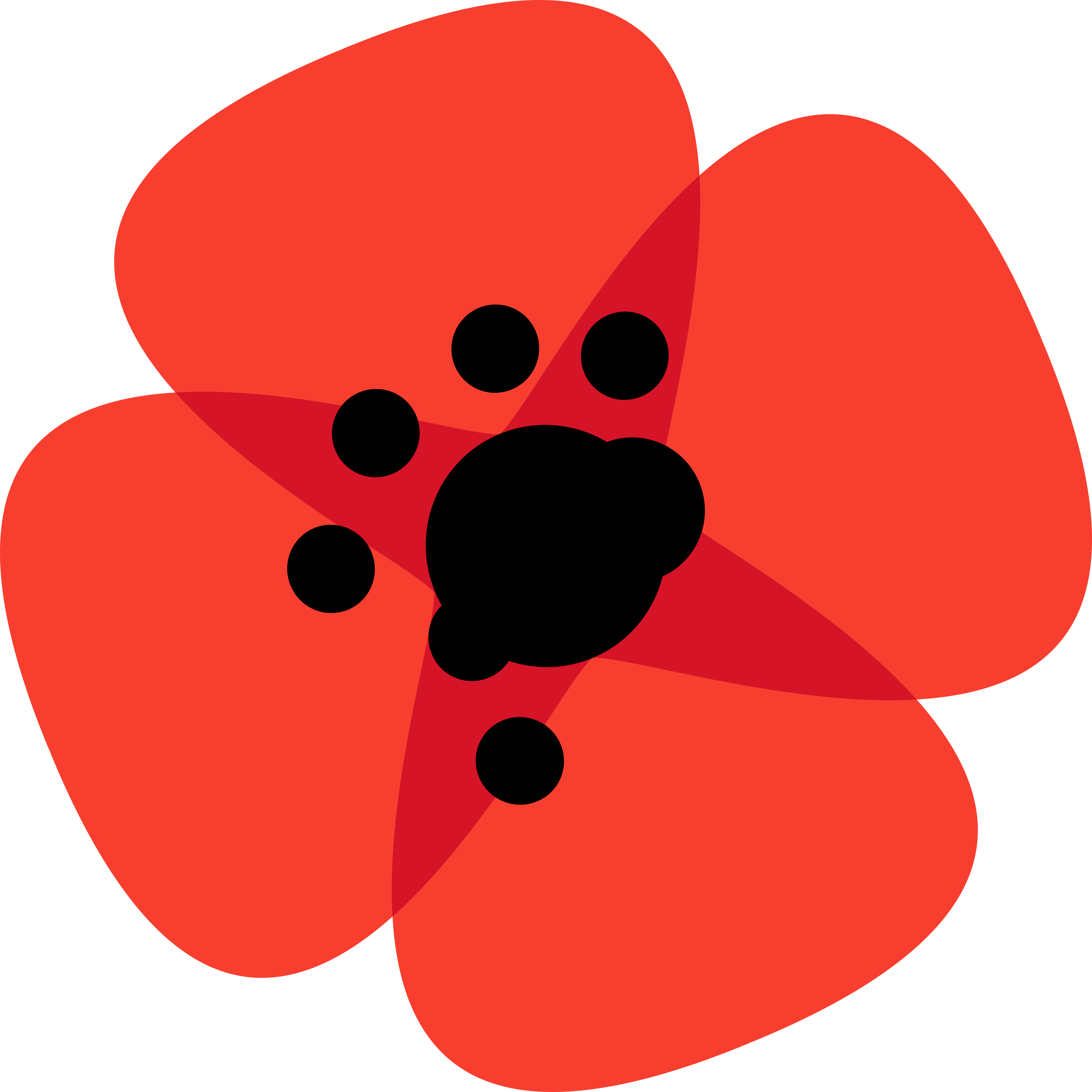 Logo of LIVRE ("FREE" in Portuguese), a political party from Portugal.